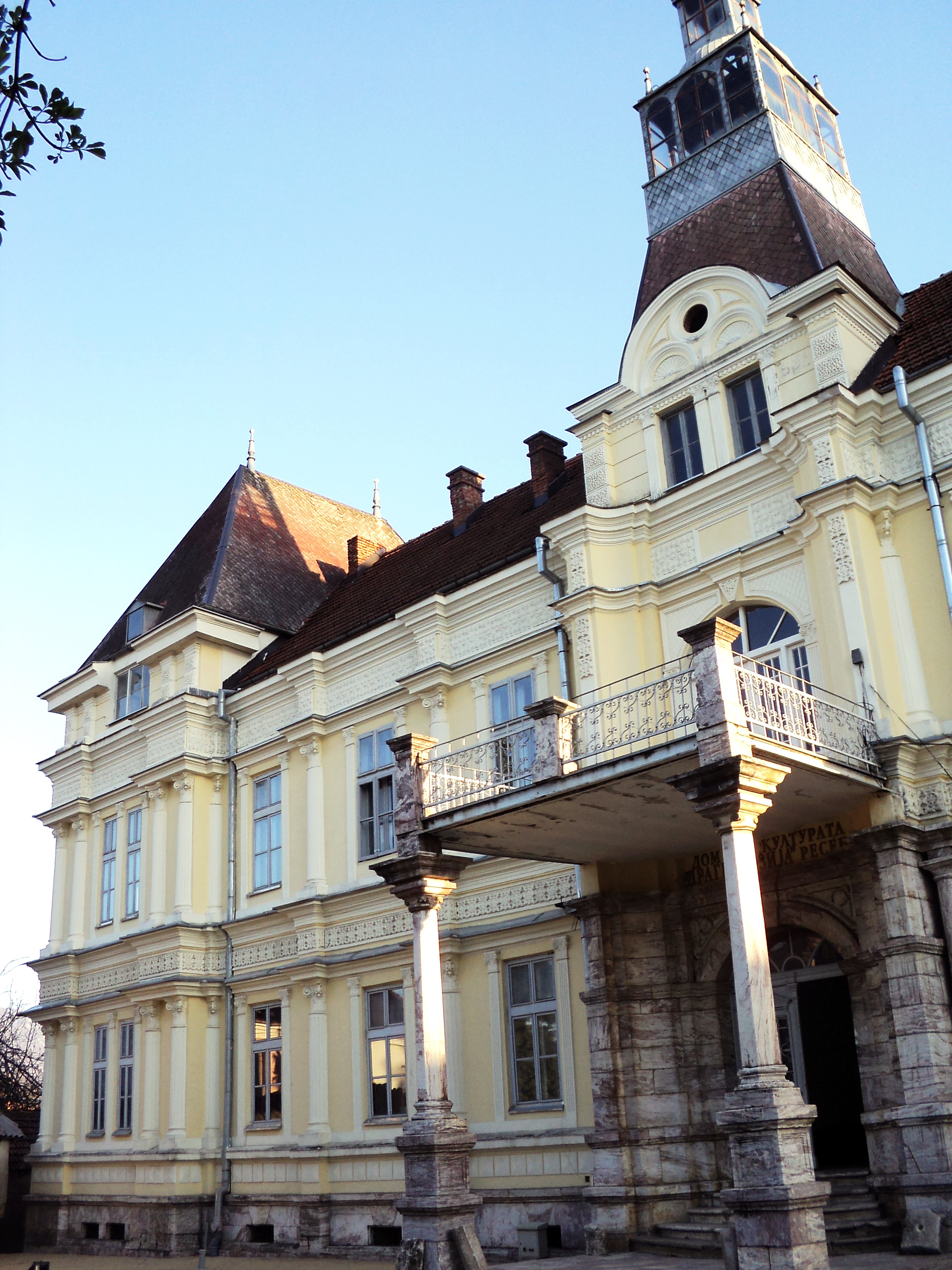 Part of Niyazi Bey Palace (Resen, Macedonia)